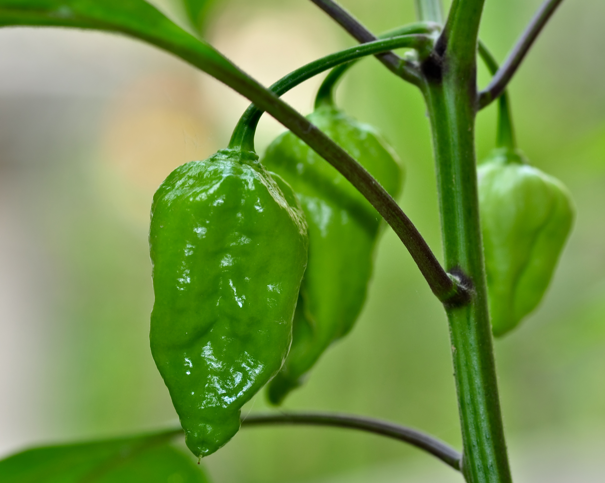 Naga jolokia chili, Capsicum chinense